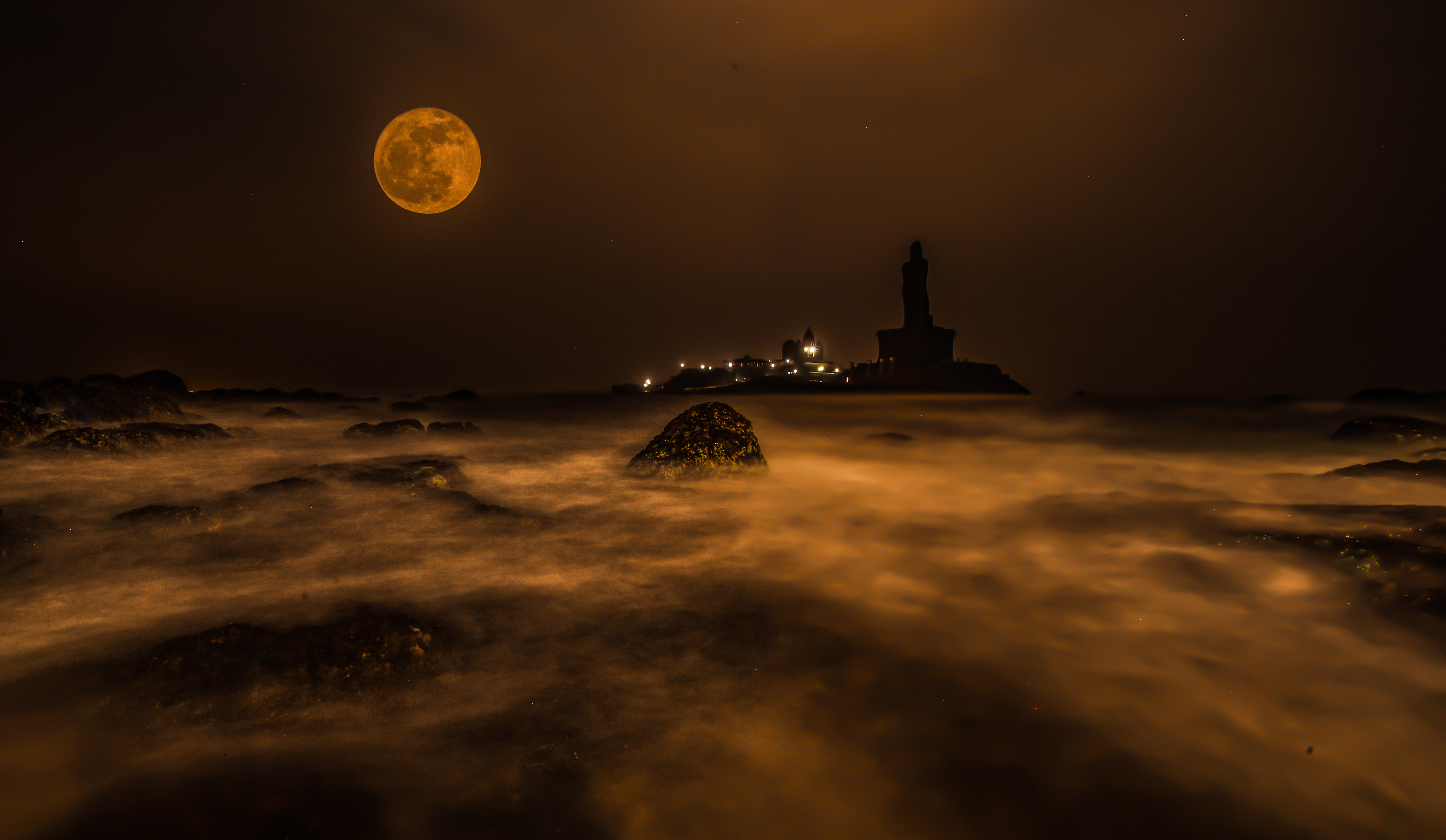 kanyakumari .tamilnadu,india